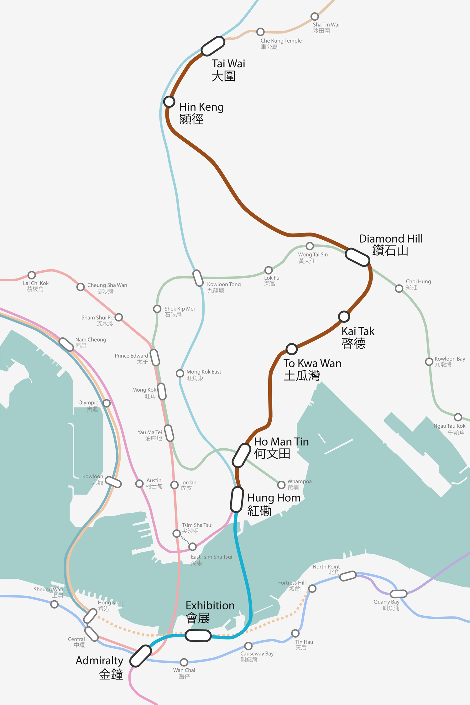 Geographically accurate map of the MTR Shatin to Central Link. (Note: This map is not to scale)